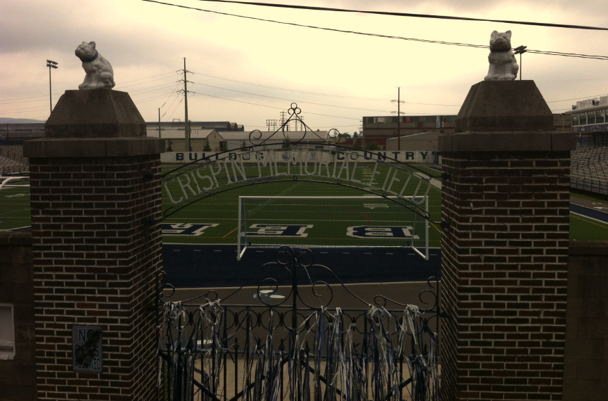 Crispin Field, home of the Bulldogs, a scene of much tradition.